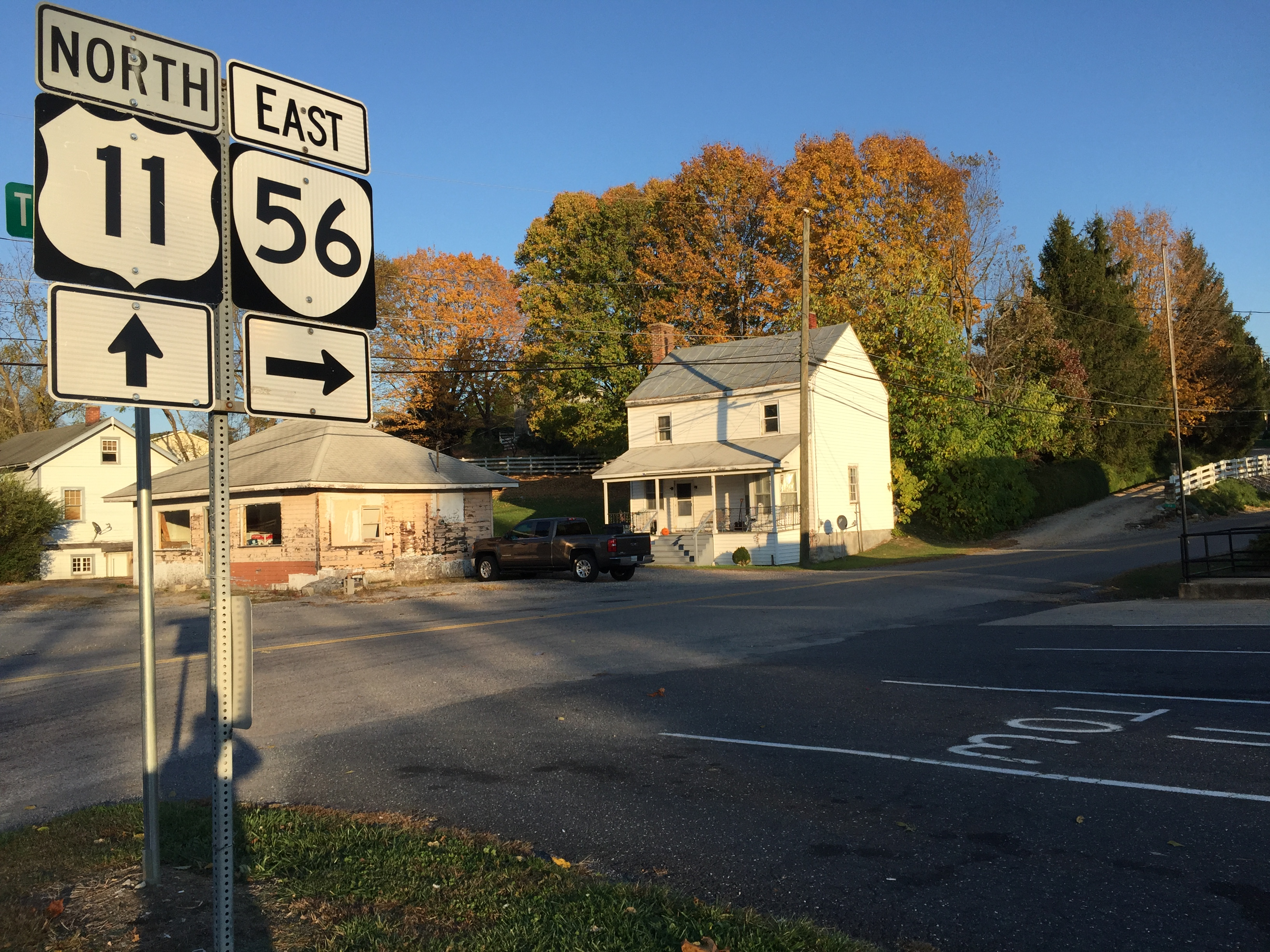 View east along Virginia State Route 56 (Tye River Turnpike) at U.S. Route 11 (Lee Highway) in Steeles Tavern, Augusta County, Virginia